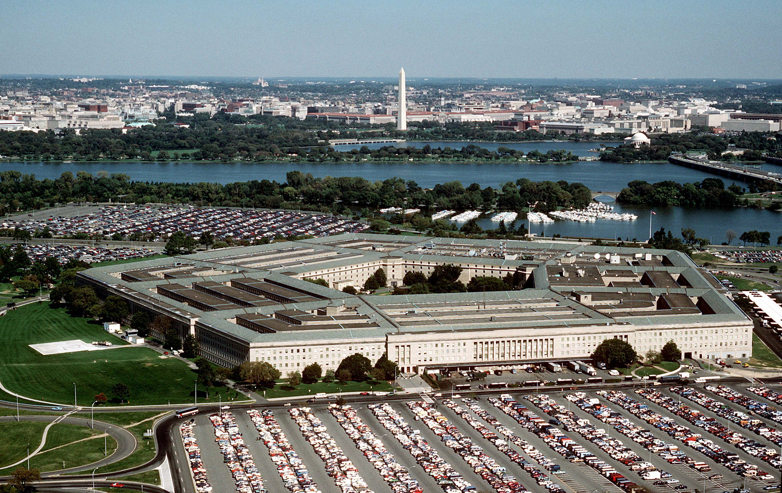 The Pentagon, looking northeast with the Potomac River and Washington Monument in the distance. The Tidal Basin is seen just below the Washington Monument. The marina which is visible is in Pentagon Lagoon, which is part of the Boundary Channel of the Potomac River. Trees border the Boundary Channel and exist both on the Virginia shoreline and on Columbia Island (an island in the Potomac River).